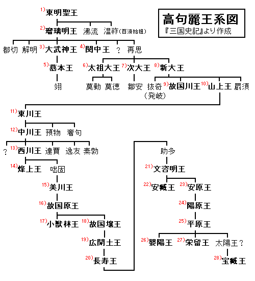 the geneology of Goguryeo / 高句麗王系図 500*550px